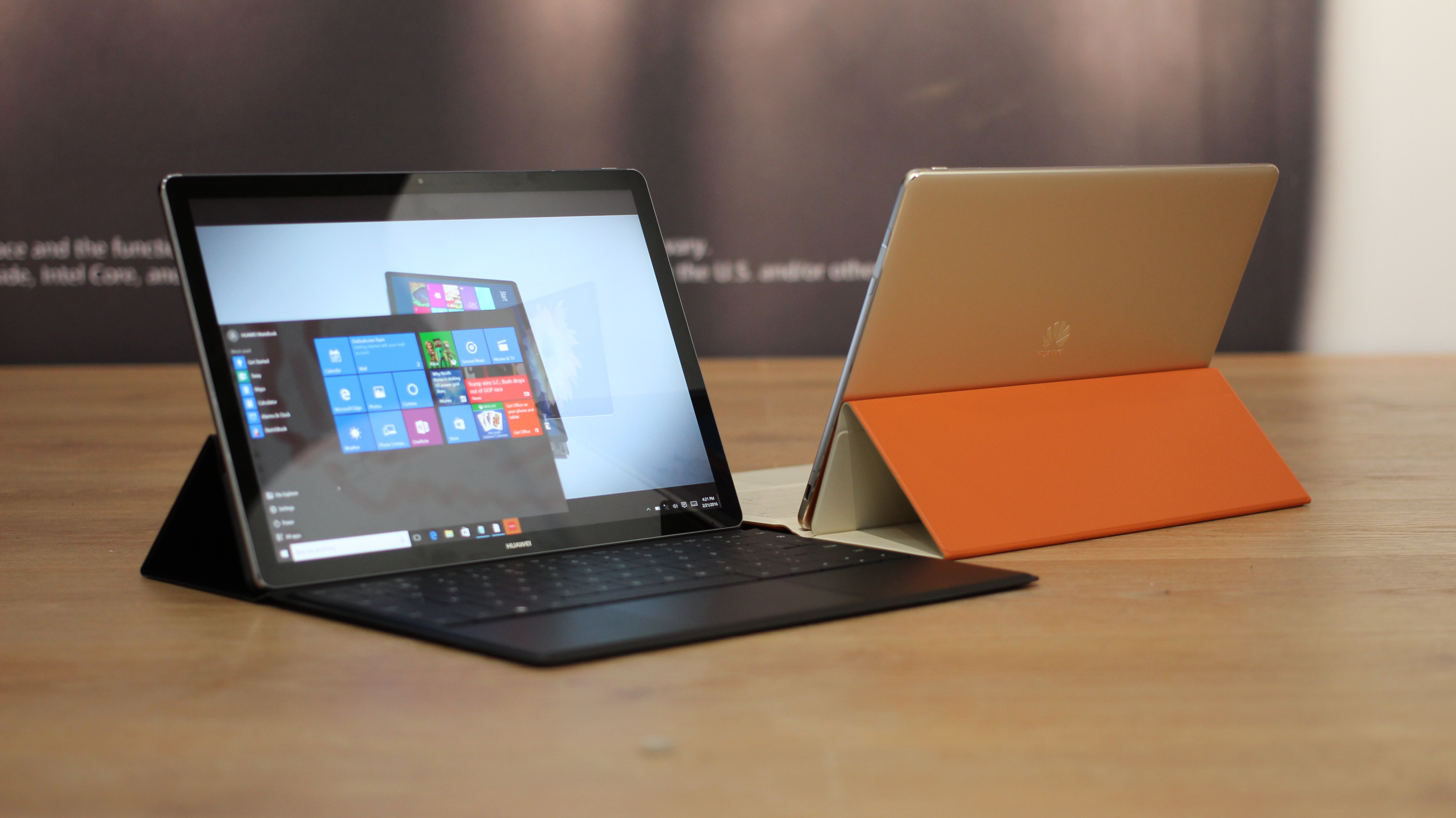 Huawei Matebook 2-in-1 tablet with Windows 10